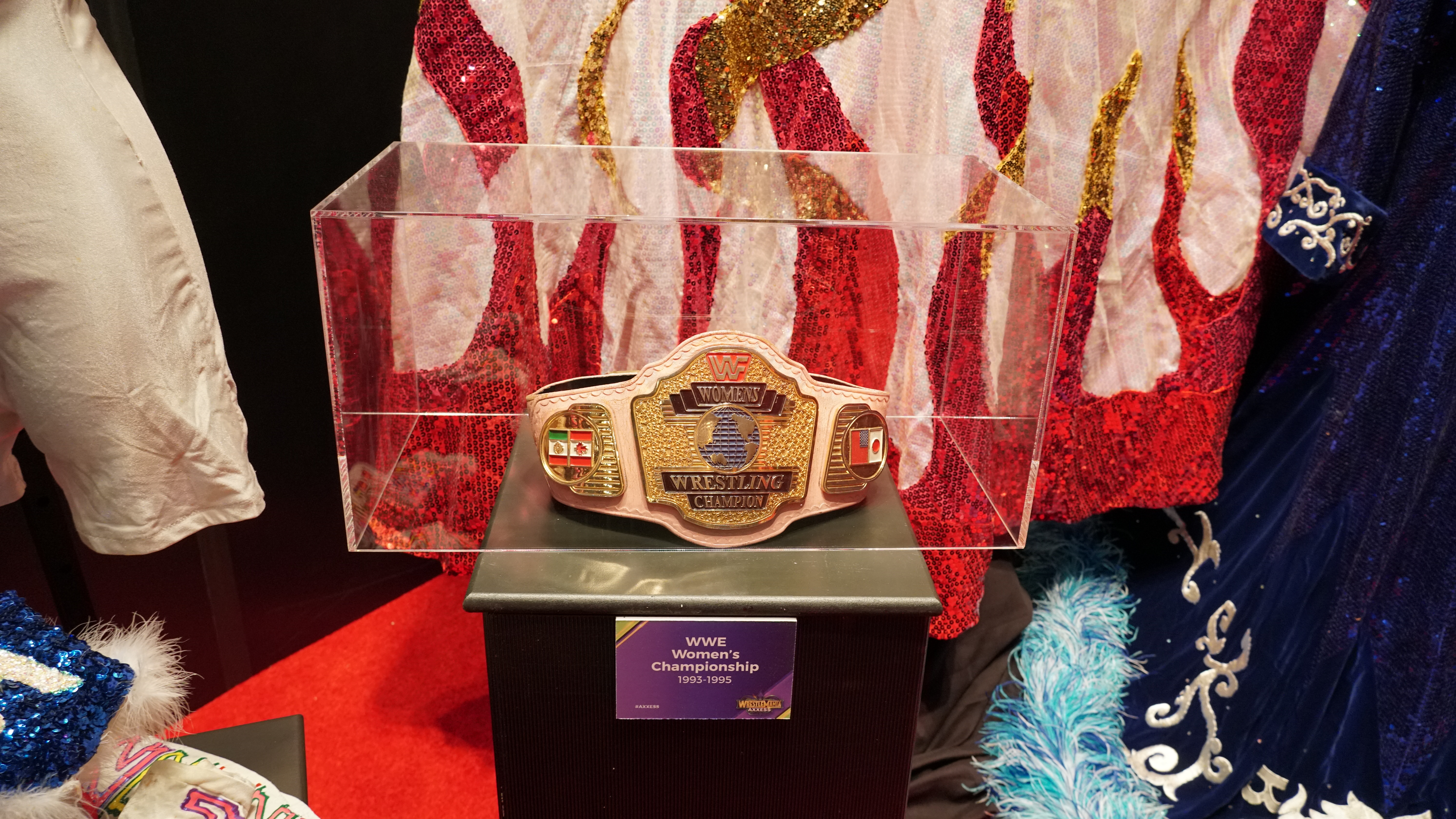 NOLA 2018 - WWE Axxess - Thursday WrestleMania Axxess takes over the Ernest N. Morial Convention Center in New Orleans, La., Thursday, April 5, to Sunday, April 8. Fans of all ages will not want to miss the ultimate WWE fan experience, featuring Superstar meet and greets, memorabilia displays and much more. ( Deux semaines a Nola pour la ville et pour WWE Wrestlemania XXXIV Two weeks Nola for the city and for WWE Wrestlemania XXXIV )